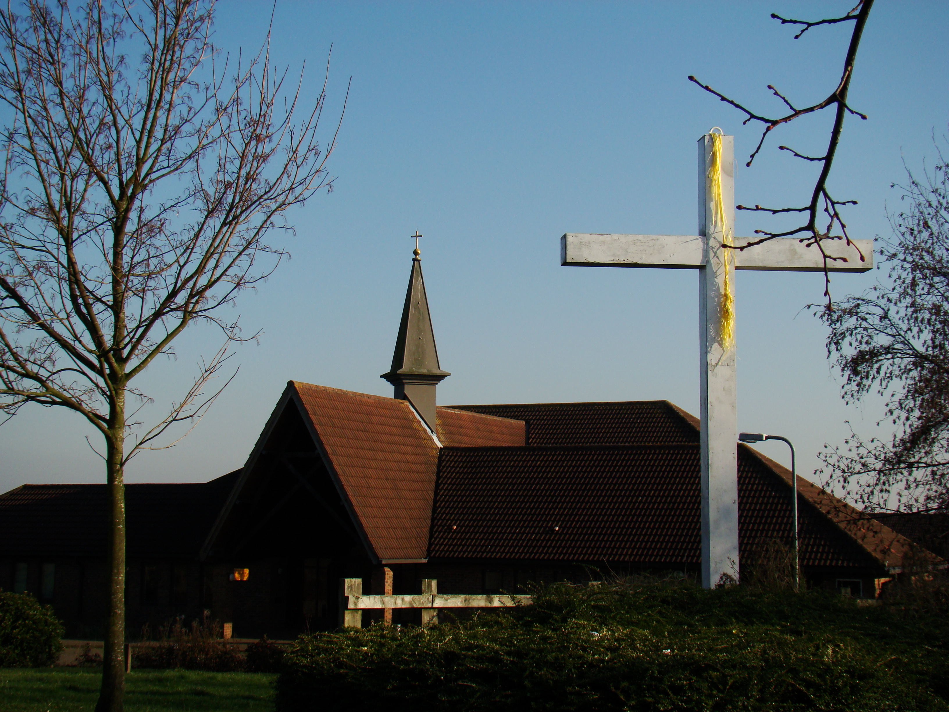 Church of the Servant King, Furzton, Milton Keynes, England